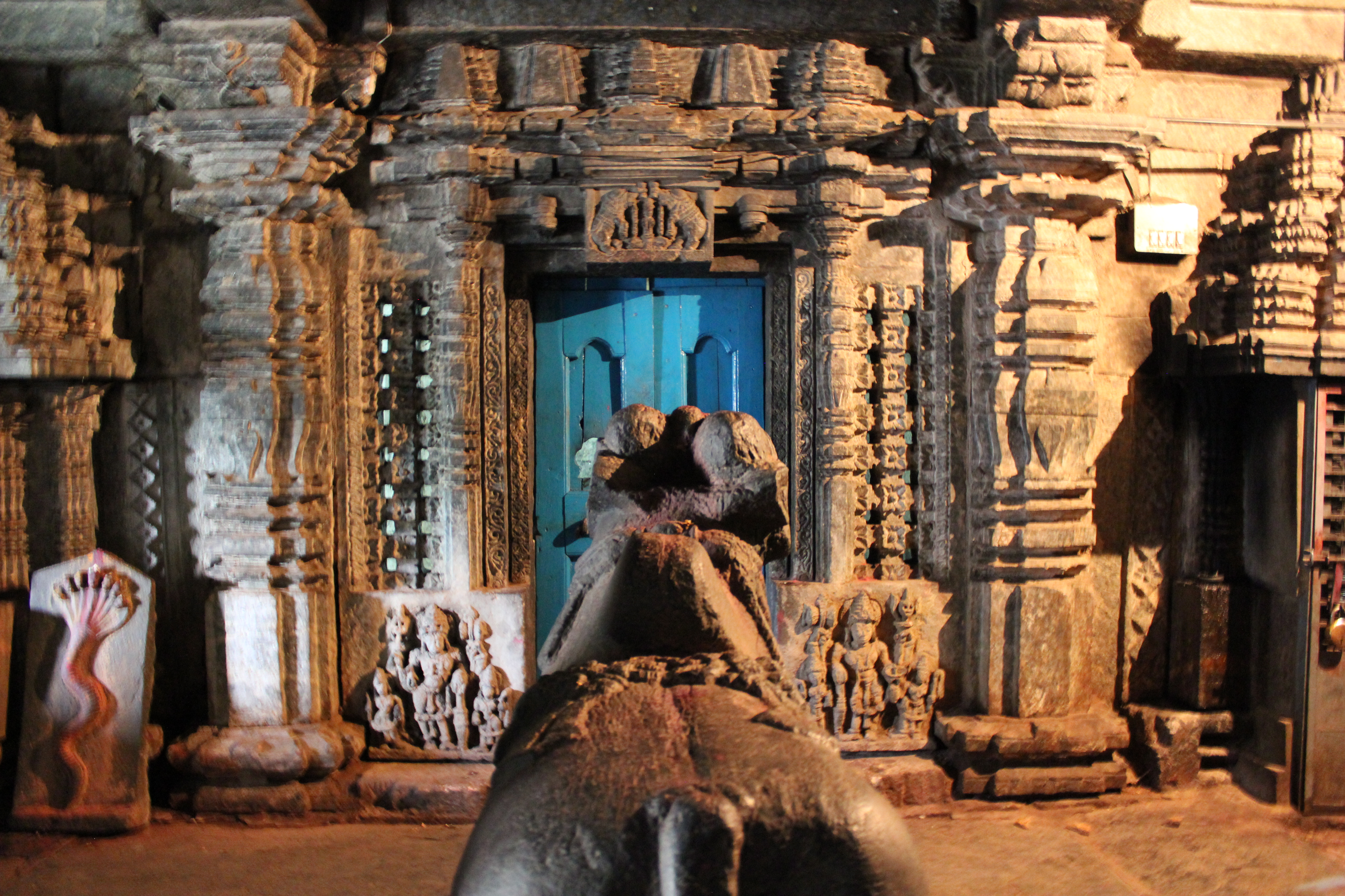 This photograph was taken by me at the Rameshvara temple (also spelt Rameshwara or Ramesvara) at Kudli in Shivamogga district (also spelt Shimoga) in Karnataka state, India. The temple was built in the 12th century during the rule of the Hoysala empire.